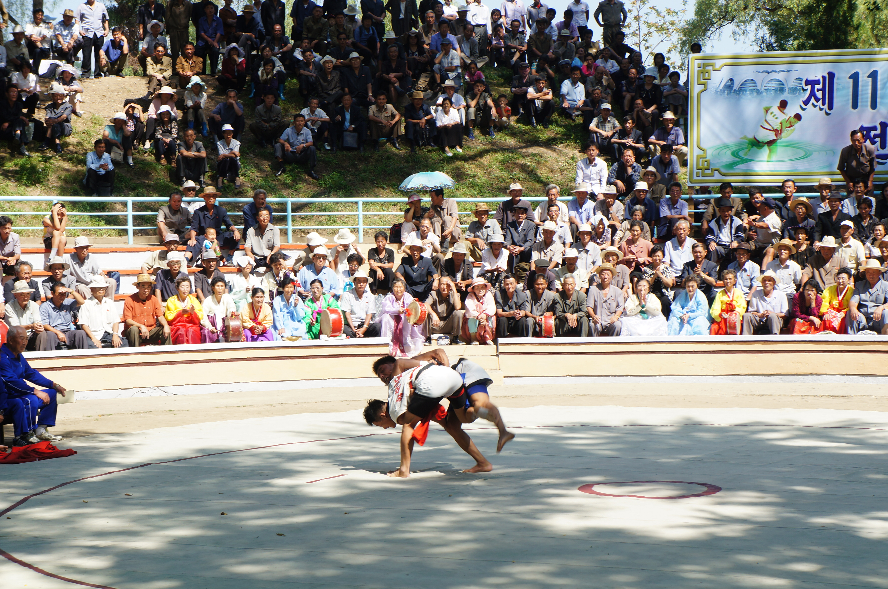 11th Annual Tournament held in Pyongyang, DPRK - September 2013.